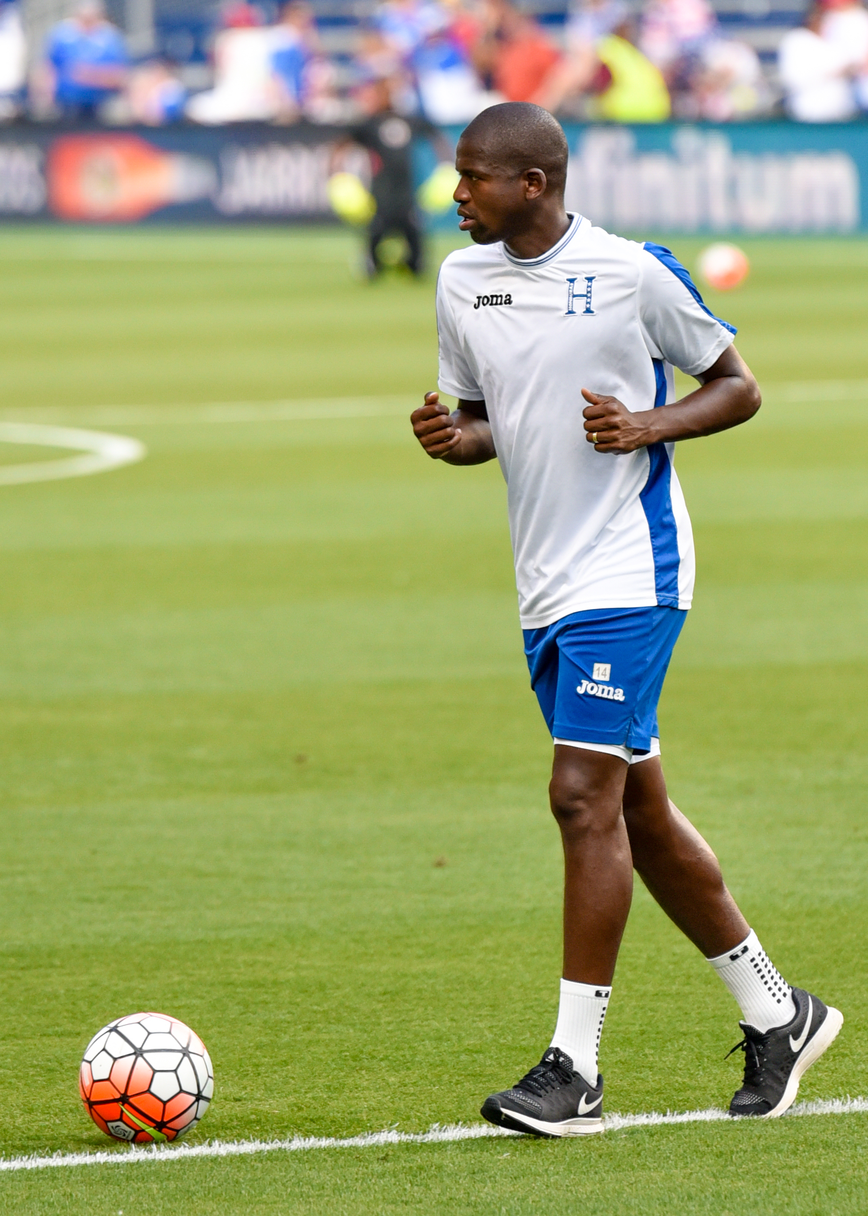 Óscar Boniek García Ramírez(Óscar Boniek García) warming up with Honduras Men's National Team. Gold Cup, Kansas City, Kansas. 13JUL2015 - He did not earn a cap in this game.